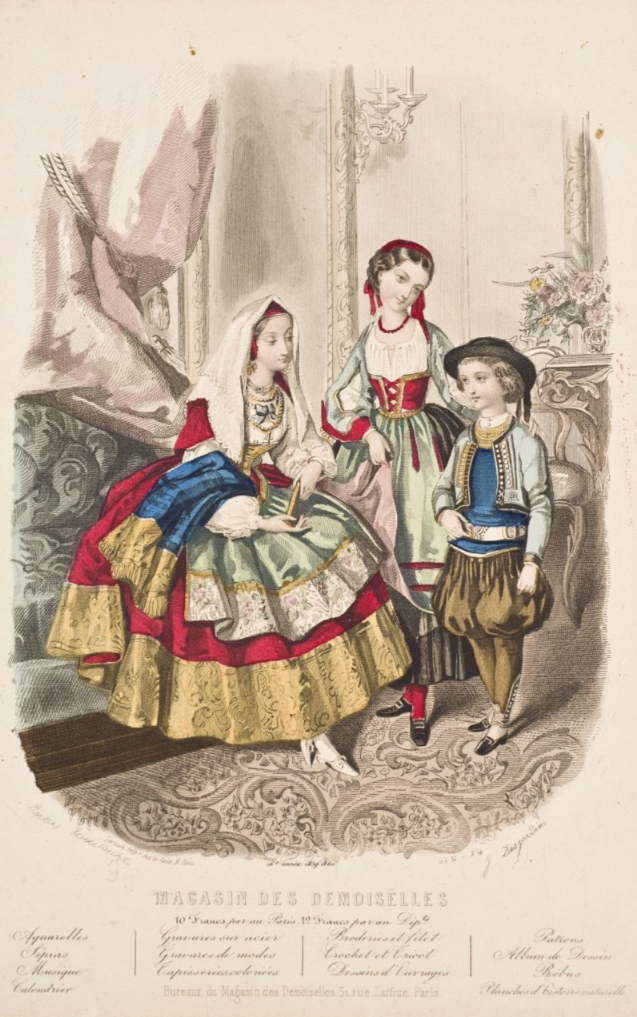 Chromotypography by J. Desjardins, after a design of Anaïs Toudouze, for Le Magasin des demoiselles, vol. 16 [1859-1860], a french fashion periodical & shop established in Paris, rue Lafitte, in 1844.